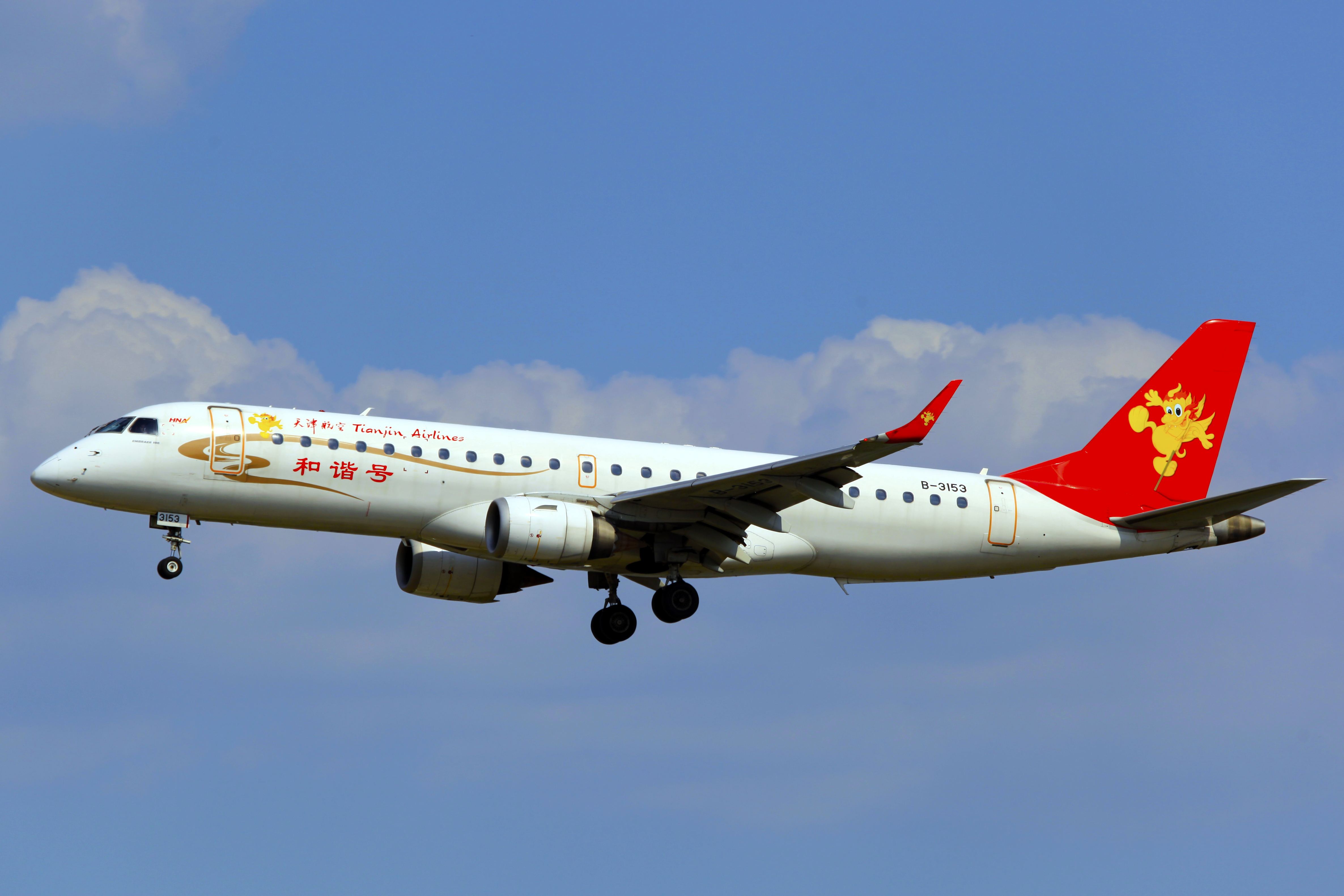 B-3153 | Tianjin Airlines | Embraer ERJ-190LR | Qingdao Liuting International Airport [TAO]